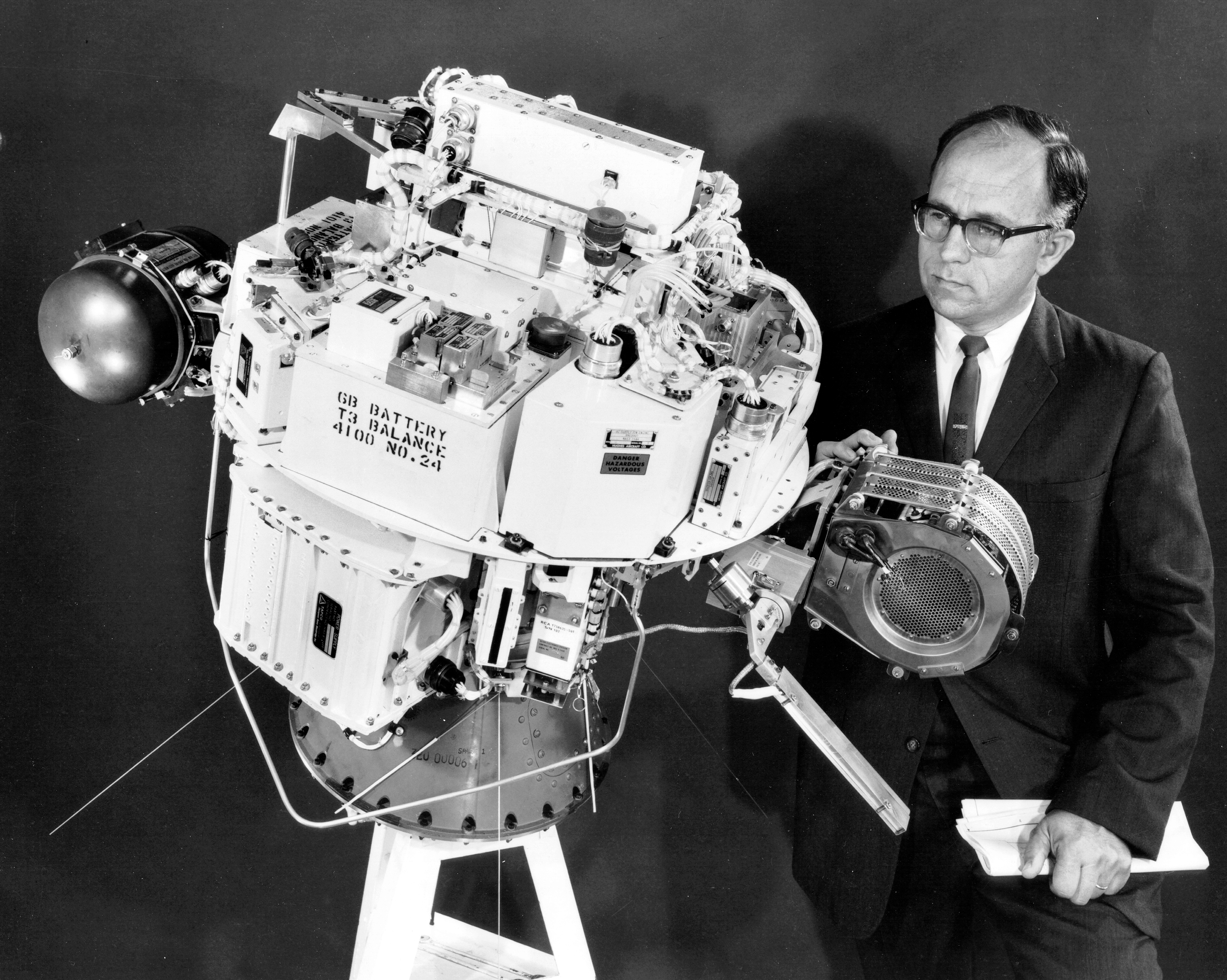 Raymond J. Rulis, SERT-1 Program Manager, is shown here examining the SERT-1 spacecraft after its arrival at the NASA Lewis Research Center for pre-flight testing. The Lewis built ion engine is in front of Mr. Rulis, and the Hughes engine, in its vacuum pod, is on the other side. Lewis is now known as the John H. Glenn Research Center.